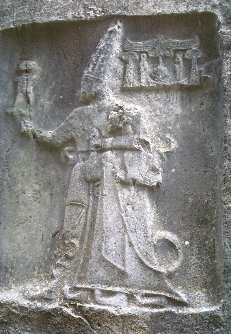 Rock carving of god Sharruma and King Tudhaliya dated around 1250 - 1220 BC in Yazilikaya, the sanctuary of Hattusa, capital city of the Hittite Empire. Photo taken by User:AtilimGunesBaydin on November 8, 2004, during a trip with METU Archaeological Society.